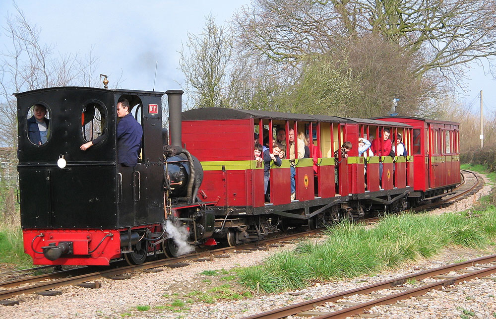 A train being pulled by the locomotive "PC Allen" on the Leighton Buzzard Railway. Photo by G-Man March 2005